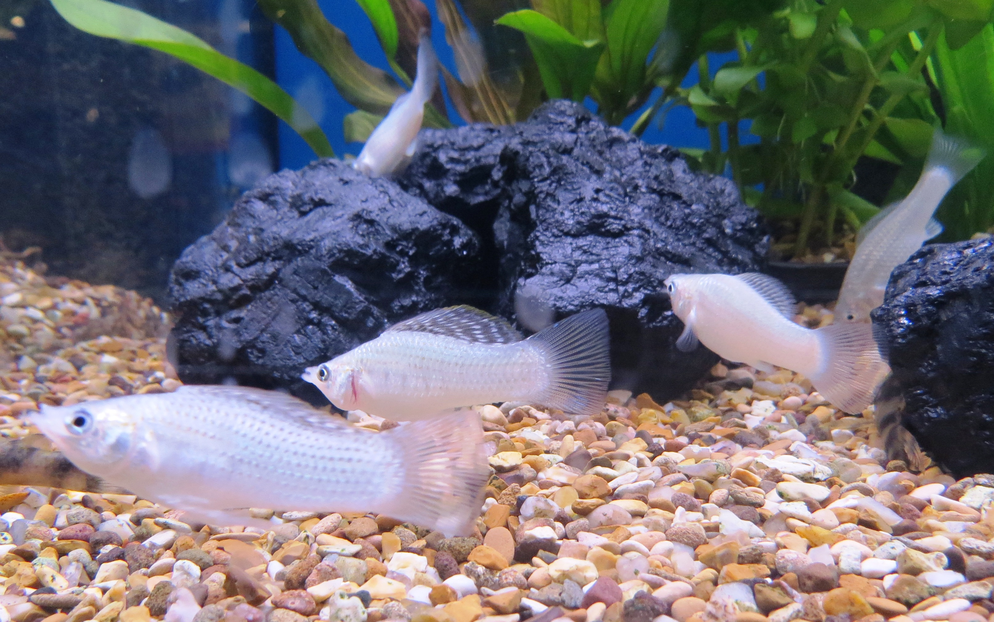 A specie of tropical aquarium fish from Central America.